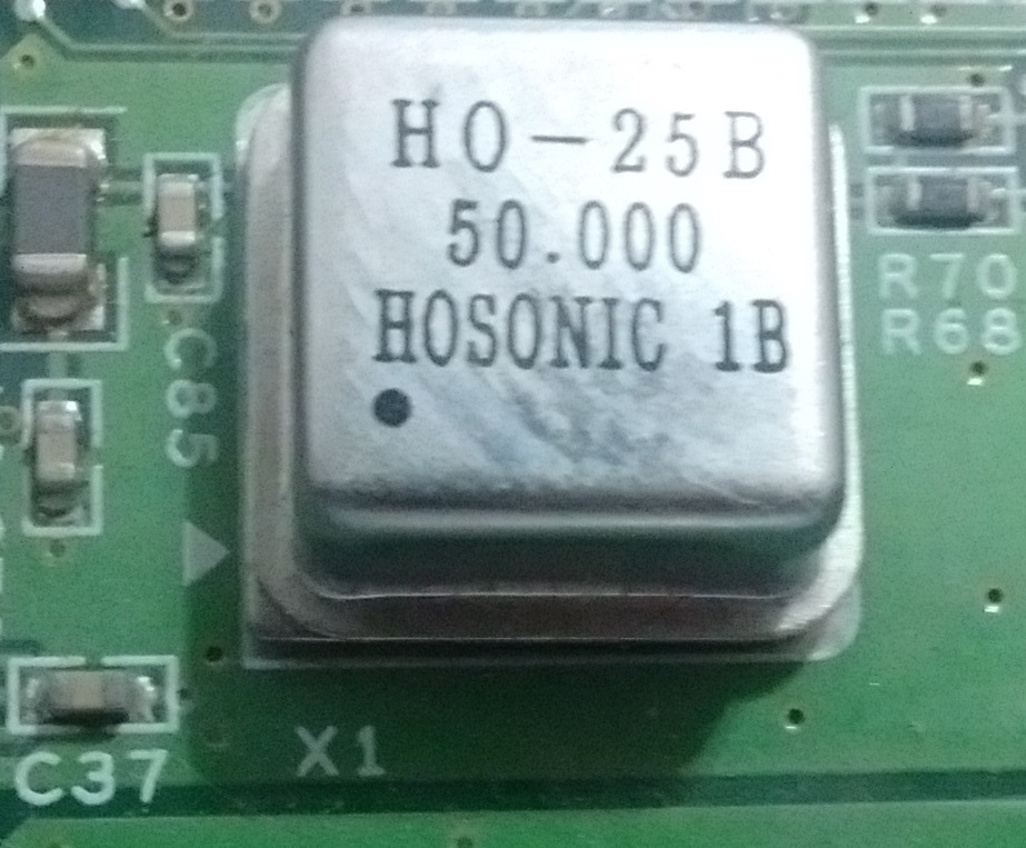 Clock oscillator HO-25B , 50Mhz, 3.3V power supply.